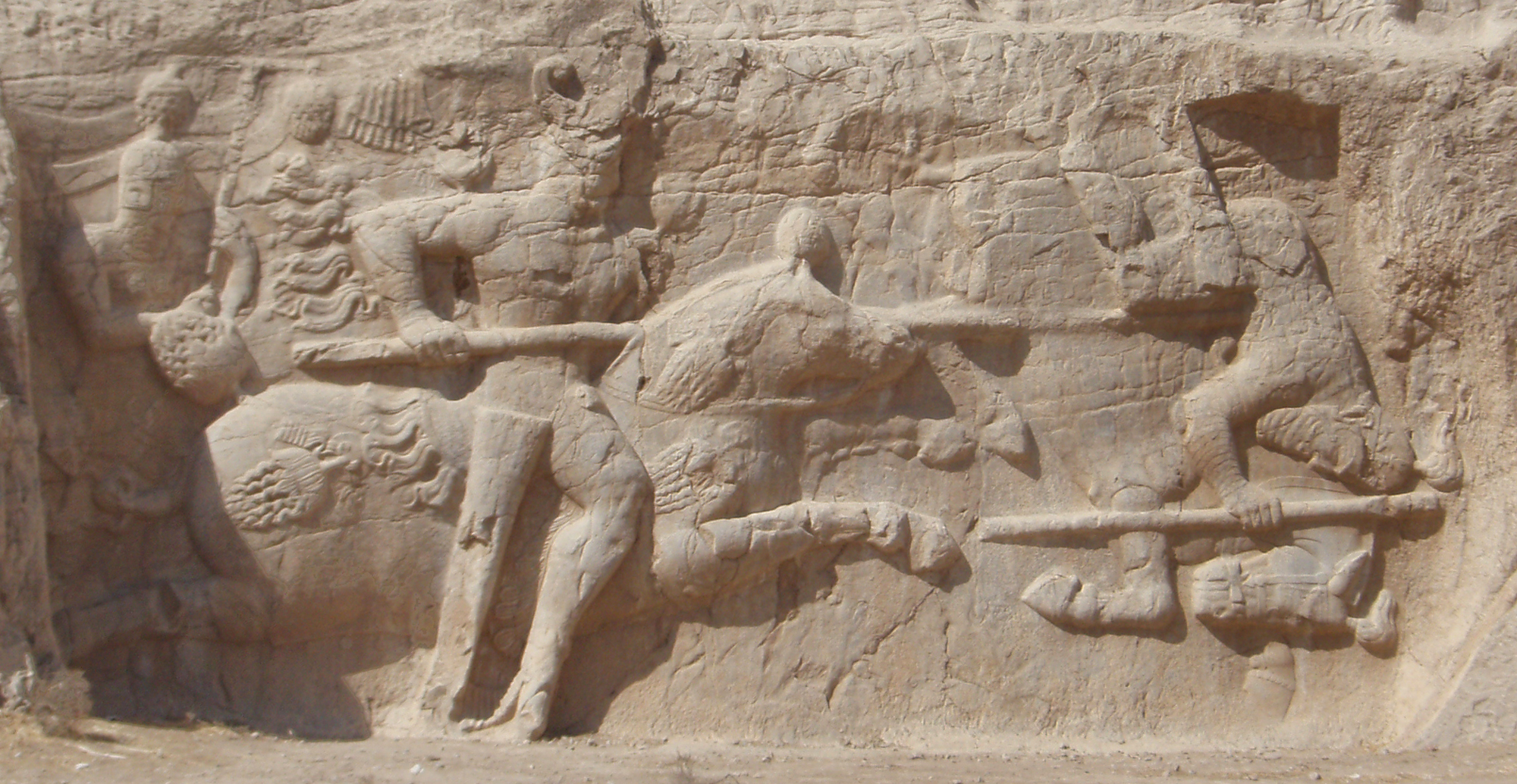 Relief "The Equestrian Victory of Hormizd II" in Naqsh-e Rustam, Iran.